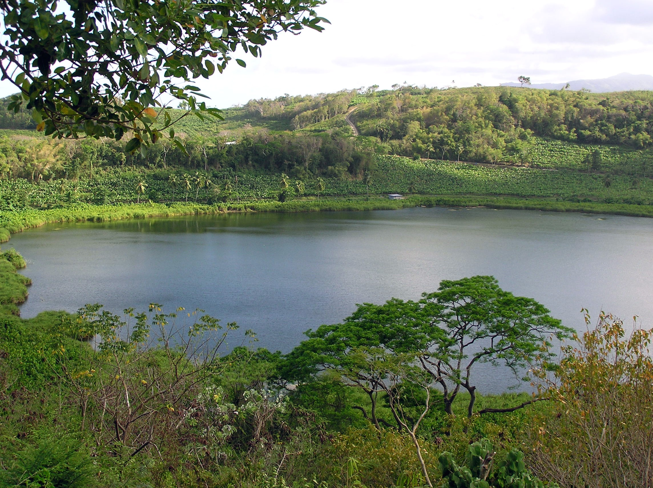 Grenada Lake Antoine